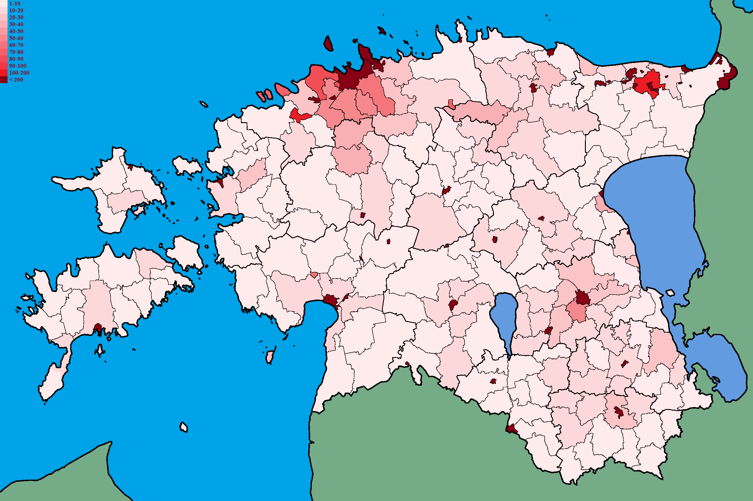 Map of Estonia with borders of municipalities. Population density.